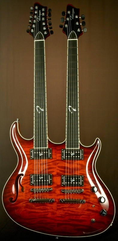 Ruokangas Duke Doubleneck References Ruokangas Duke Doubleneck (serial number #209). Ruokangas Custom Guitars. "... our first ever doubleneck guitar, Sundance coloured Duke with 12-string and 6-string necks. The 12-string side of the body is semi-hollow and the 6-string side solid. Both necks are fitted with supersmooth stainless steel frets on ebony fretboards. Weight 5.8 kg/ 12.8 lbs. ..."